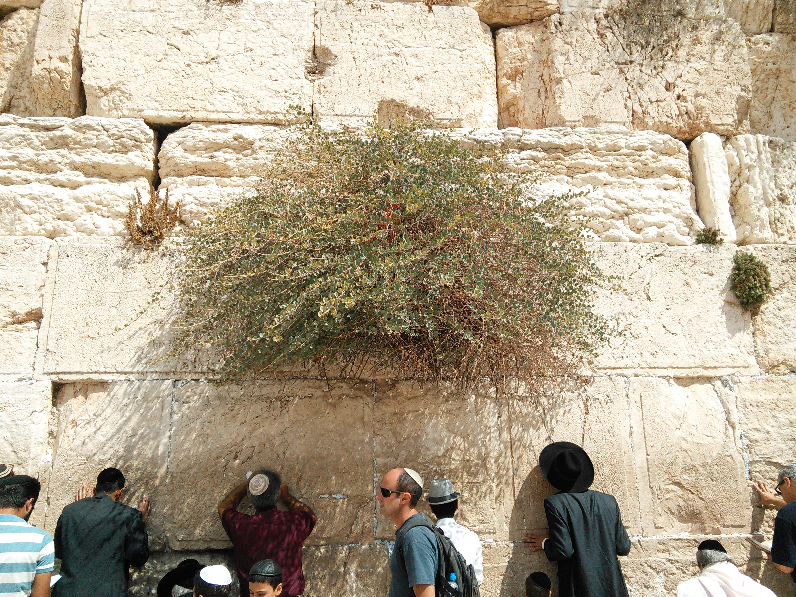 Capers bush on the Western Wall of Jerusalem's Old City